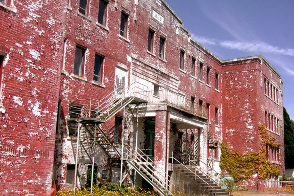 Formerly St. Michael's Residential School Building, Alert Bay. Turned over to 'Namgis First Nation and renamed 'Namgis House in 2003.